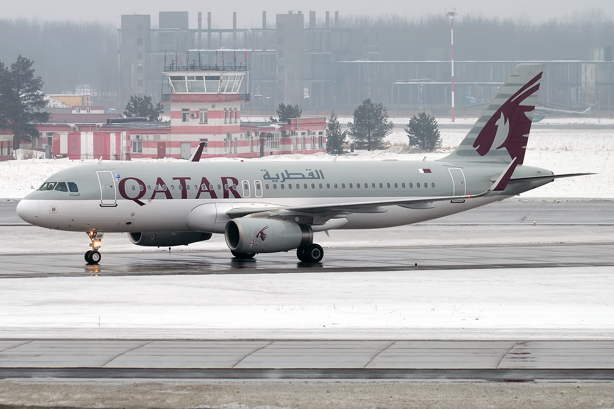 Qatar Airways, A7-AHP, Airbus A320-232